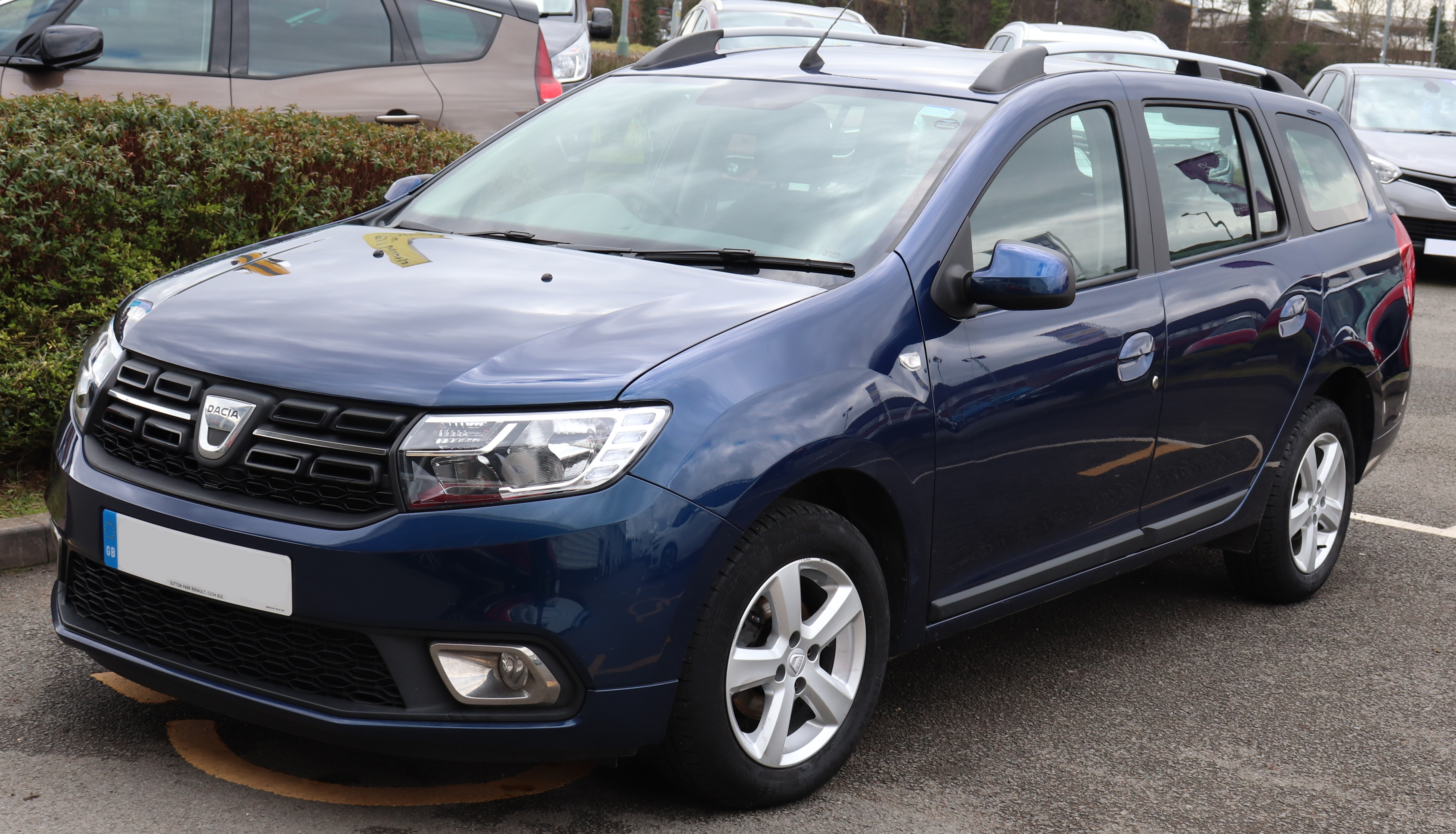 2017 Dacia Logan MCV Laureate DCi 1.5 Front Taken in Leamington Spa